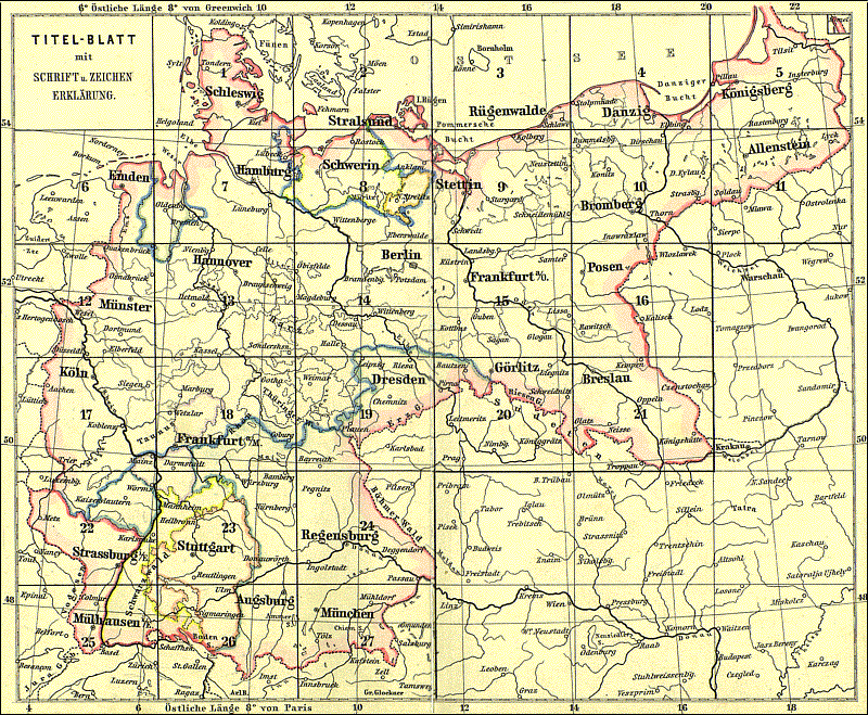 Karte des Deutschen Reichs (Carl Vogel)